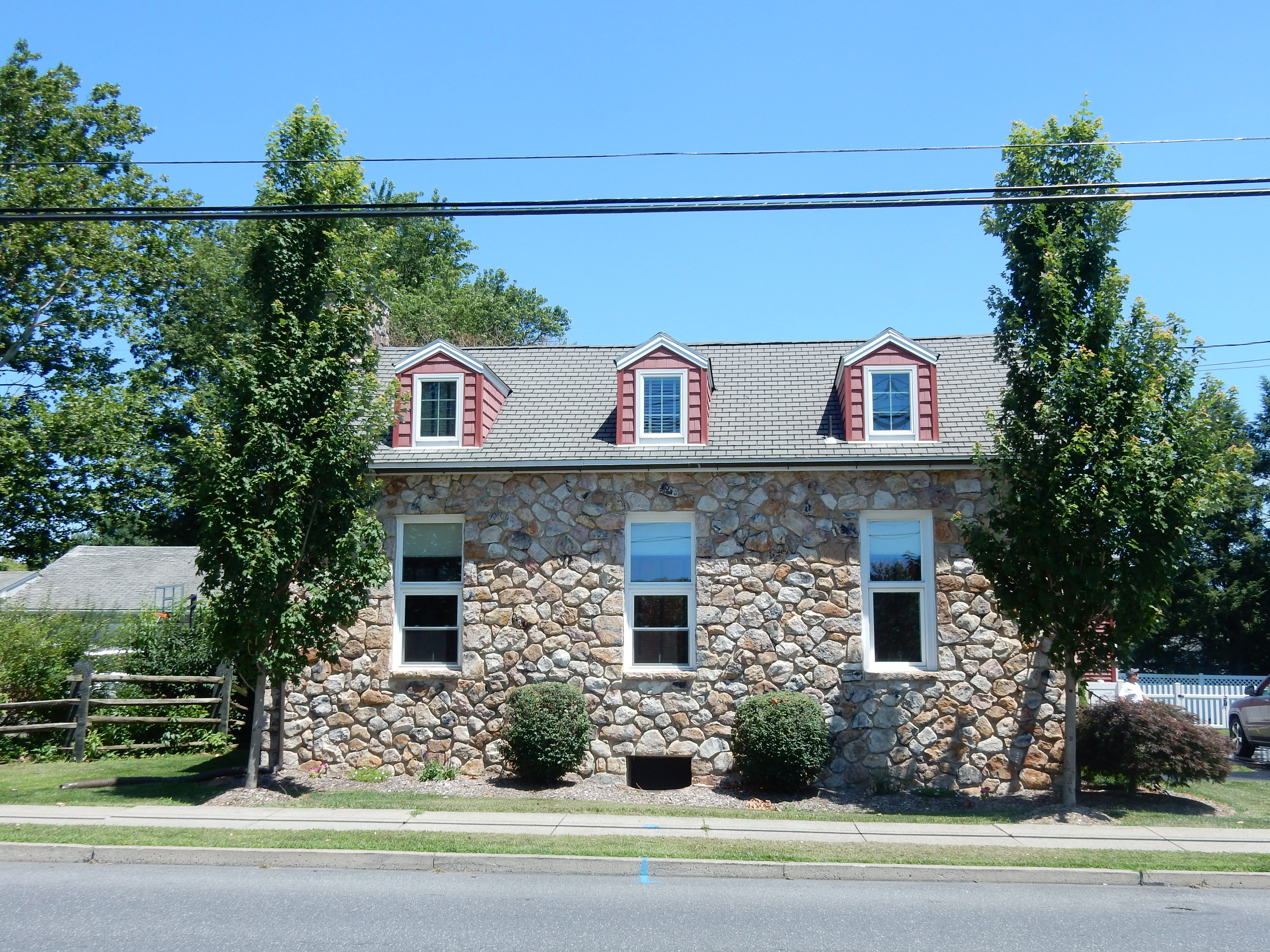 Schortz Old School House on Jacksonville Rd., Hanover Township, Northampton County, Pennsylvania